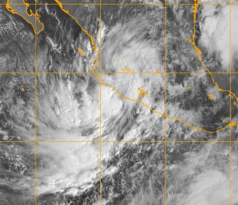 Visible satellite image of a regenerated Tropical Depression Norman, located just off the coast of Mexico on October 15, 2006.